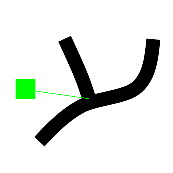 overlapping T-crossing